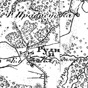 Rudnia on the map "Военно-топографическая карта Российской Империи" (known as "Schubert's map"), XX 5, 1866-1887 (issued in 1911).